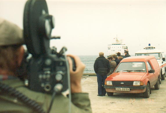 Arrival of Cal-Mac Ferry at Tiree. STV's oscar-winning film cameraman Varick Easton films the arrival of the Oban ferry as it arrives at Tiree. Note the police presence, to check on arrivals and departures.